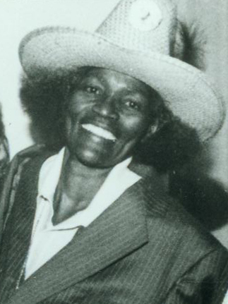 Big Mama Thornton